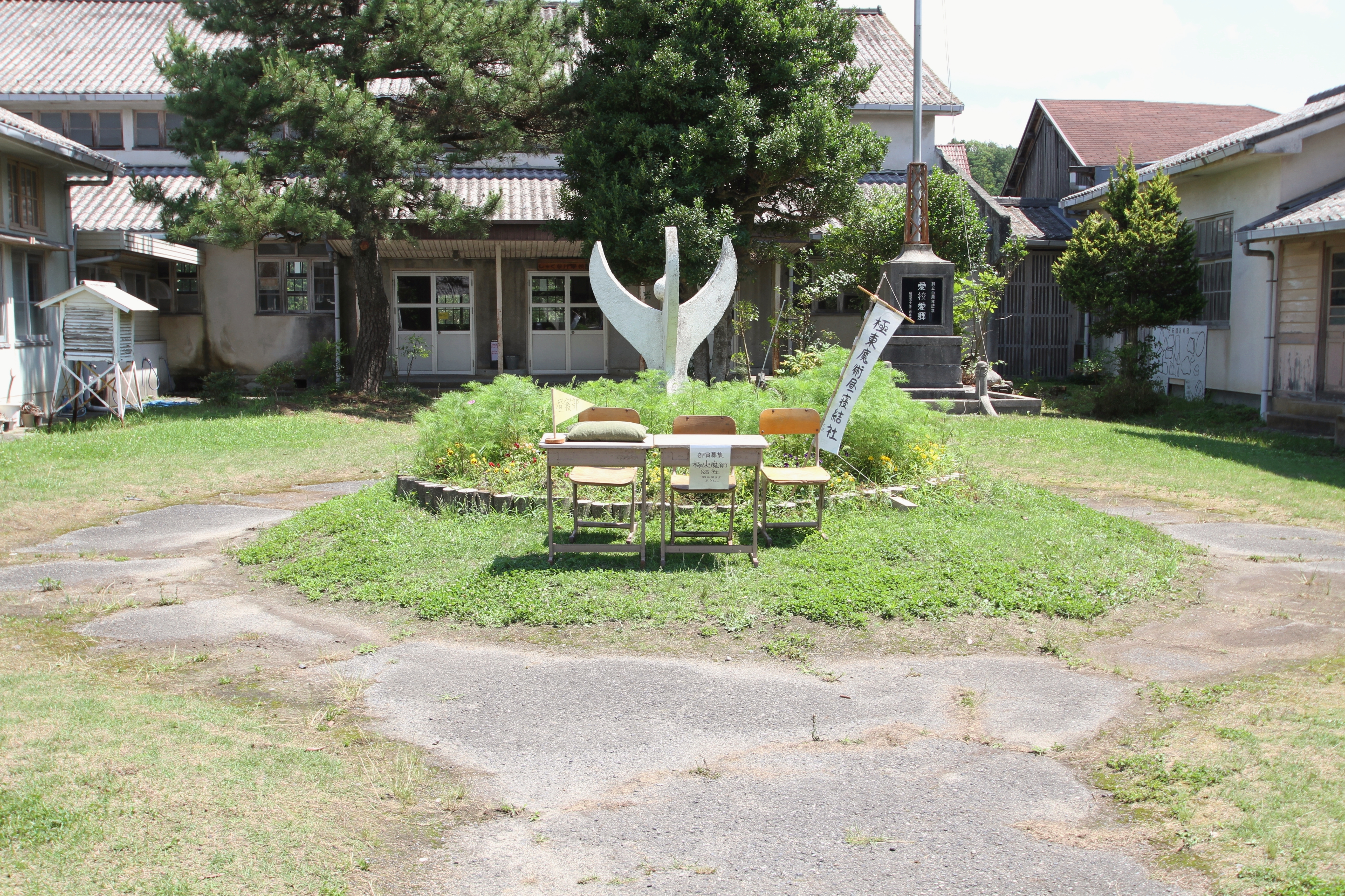 Old Kaigake Elementary school (Japan)